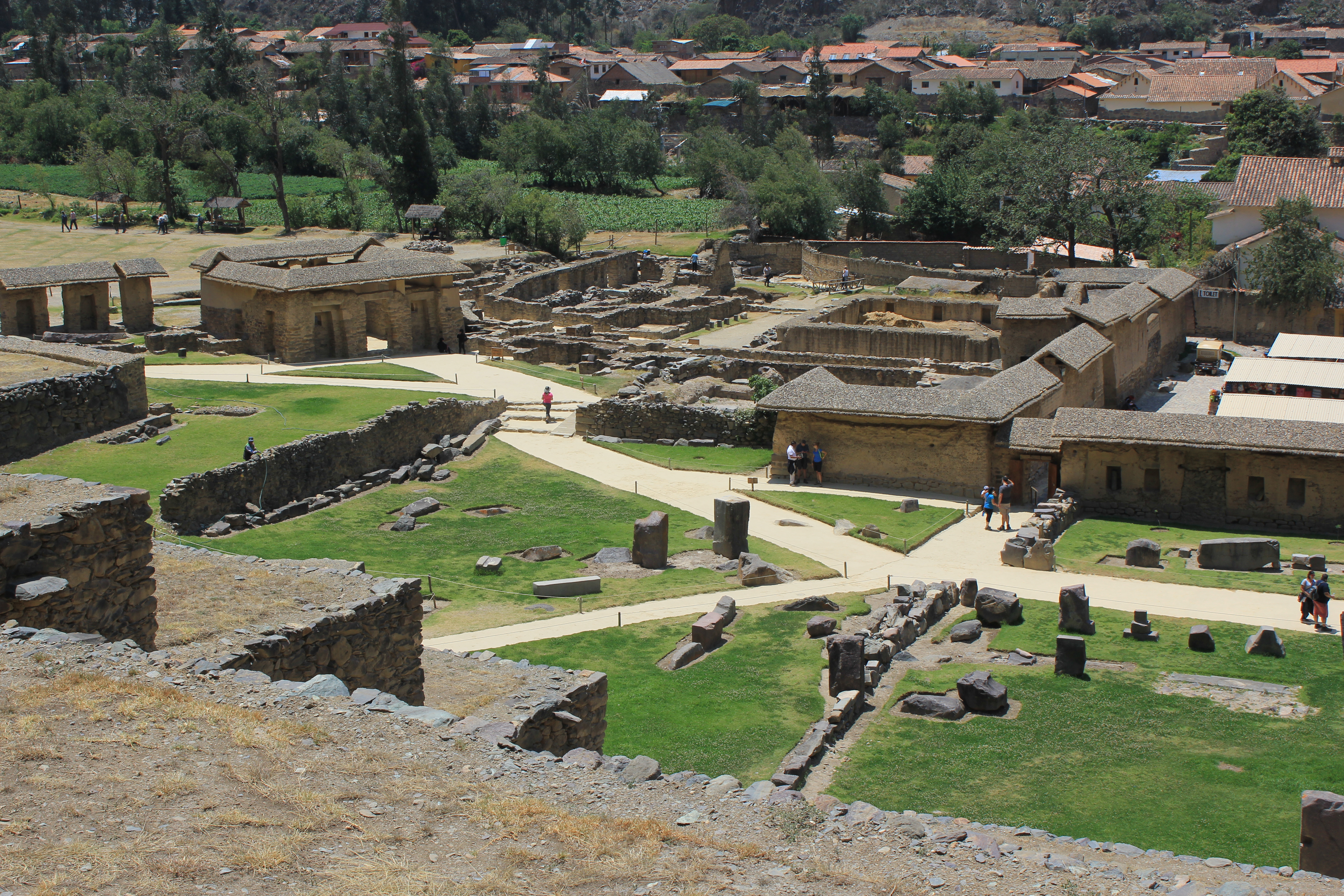 Ollantaytambo, (Quechua: Ullantaytampu) is a town and an Inca archaeological site in southern Peru some 72 kilometres (45 mi) by road northwest of the city of Cusco. It is located at an altitude of 2,792 metres (9,160 ft) above sea level in the district of